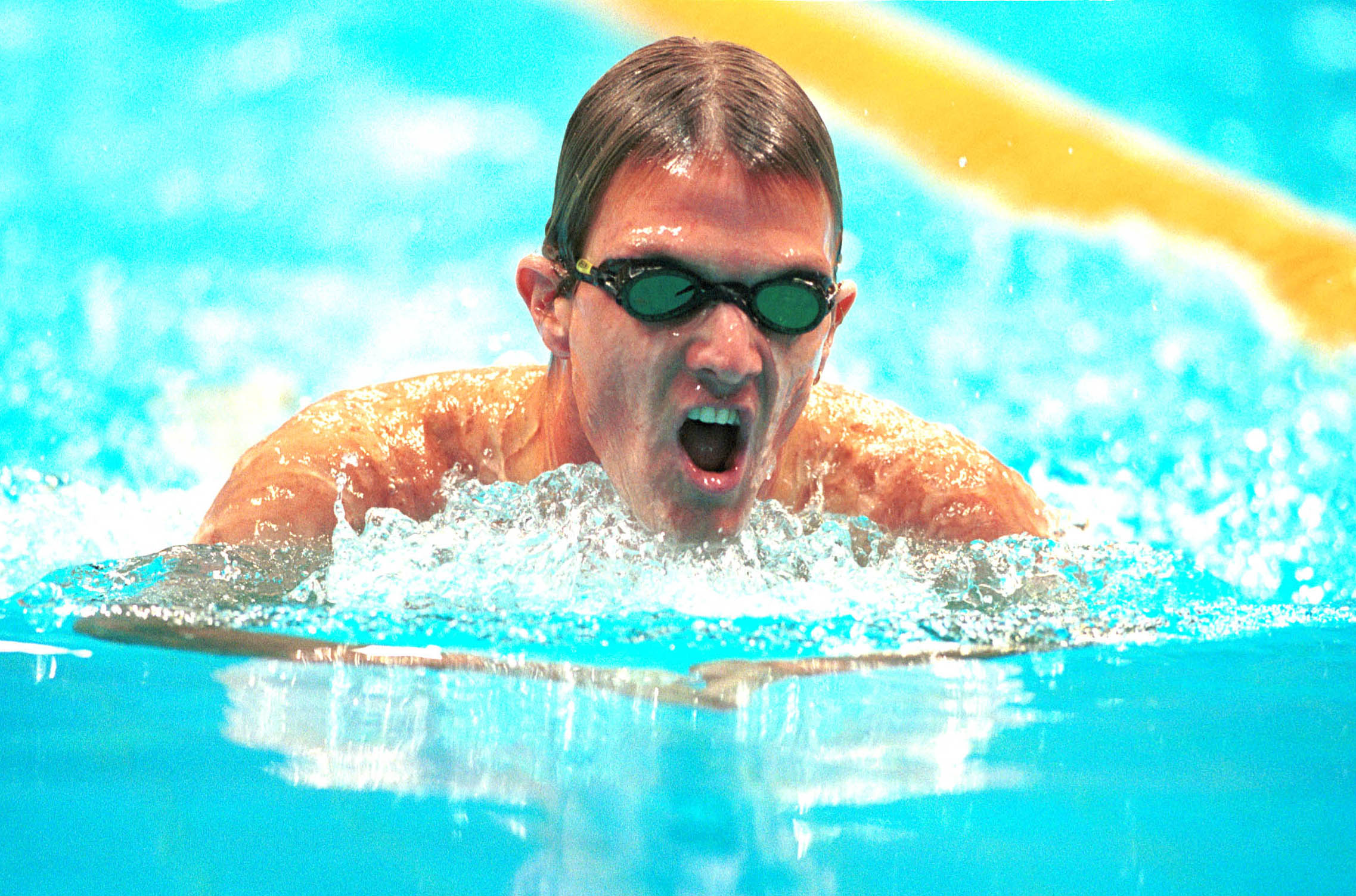 Action shot of Australian swimmer Alex Harris during competition at the 2000 Sydney Paralympic Games